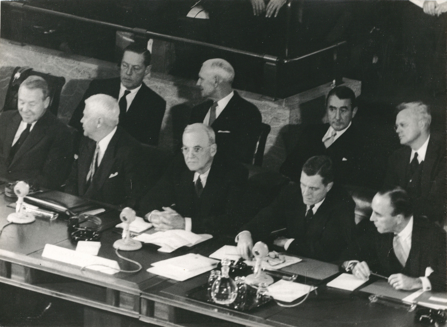 Geneva ‘Big Four’ Summit – July 18-20, 1955 – (Front Row L to R) Herman Phleger, Legal Counsel for the Secretary of State (Dulles); Charles E. Wilson, Secretary of Defense; John Foster Dulles, Secretary of State; Livingston T. Merchant, Assistant Secretary of State-European Affairs; Douglas MacArthur II, State Department Counselor; (Back Row L to R) Charles E. ‘Chip’ Bohlen, Ambassador to the Soviet Union; Admiral Jerauld Wright, Supreme Allied Commander-Atlantic; former Deputy Director CIA William Harding Jackson, Special Assistant to Secretary Dulles; and Gov. Sherman Adams, Eisenhower's White House Chief of Staff.